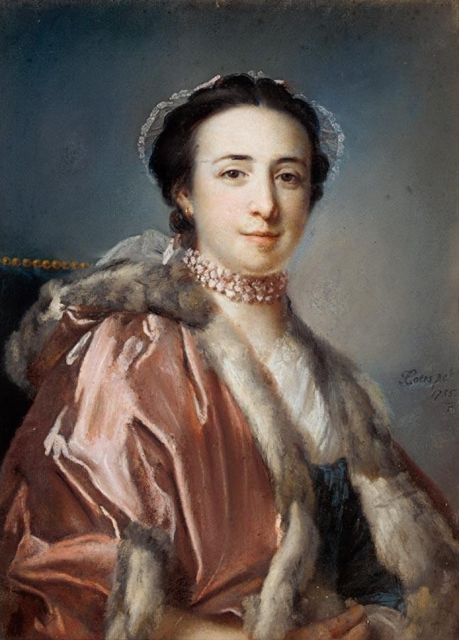 Mericas da Silva (Mrs Joseph Gulston) painted in 1755 by Francis Cotes (1726–1770)